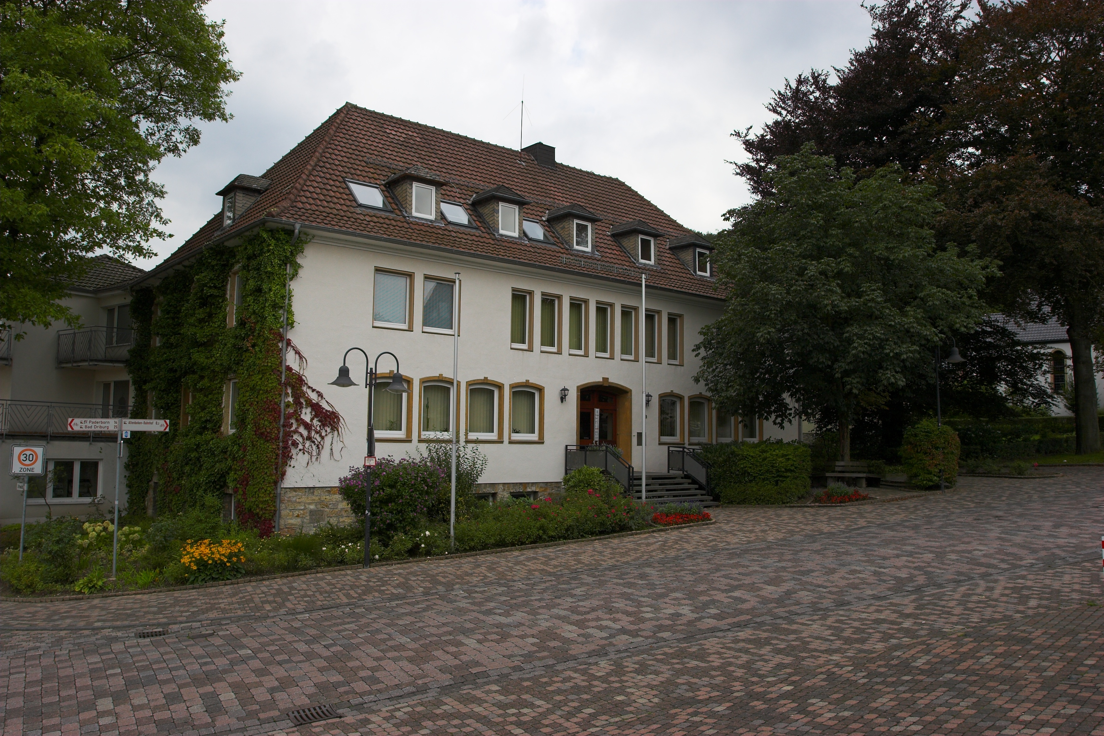 Townhall of Altenbeken, Germany